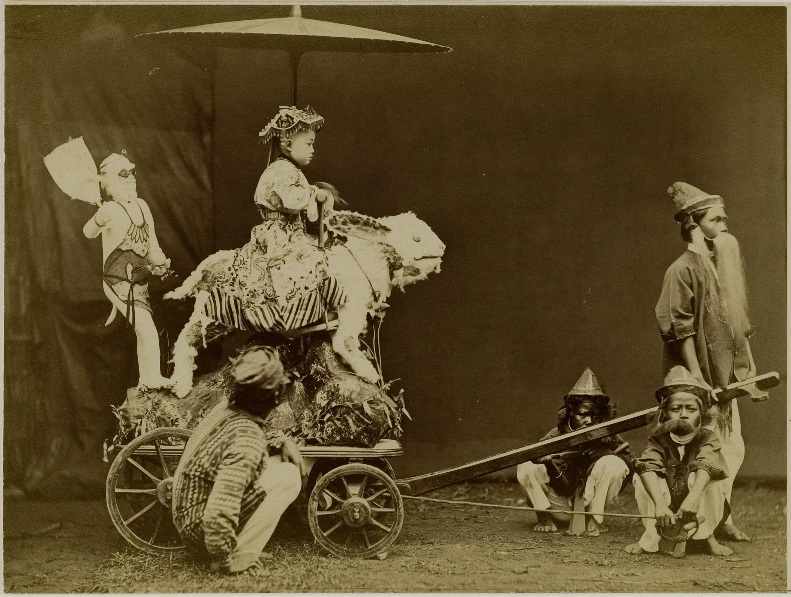 This photograph shows Chinese children participating in the Tjap Go Meh Festival in Makassar, the largest city on the Indonesian island of Sulawesi. Tjap Go Meh, which takes place 15 days after Chinese New Year, was widely celebrated among Chinese immigrants in Indonesia, and became popular with the local population as well. Also known as the Lantern Festival, it involves parades and performances similar to those on the new year. The picture was taken by the studio of British photographers Walter Bentley Woodbury and James Page, who arrived in the Dutch East Indies from Australia in 1857 and opened a studio in Batavia (present-day Jakarta). The firm of Woodbury & Page went on to specialize in portraits, ethnographic images, and photographs of life in the Dutch East Indies. The photograph is from the collections of the KITLV/Royal Netherlands Institute of Southeast Asian and Caribbean Studies in Leiden. Children; Feasts